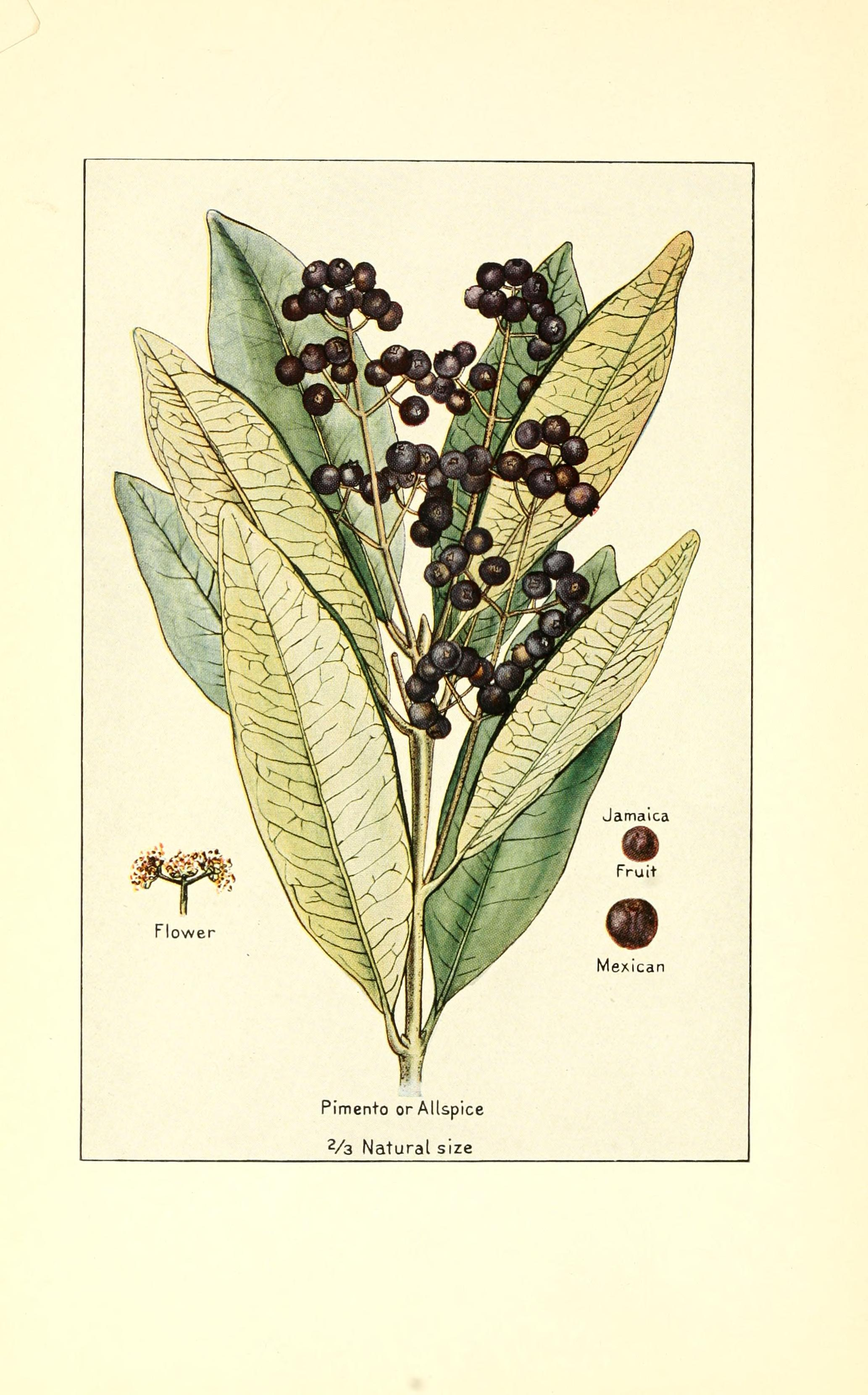 Title: Spices, their nature and growth, the vanilla bean, a talk on tea Year: 1915 (1910s) Authors: McCormick and company, Baltimore. (from old catalog) Katherine Golden Bitting Collection on Gastronomy (Library of Congress) DLC (from old catalog) Subjects: Spices cbk Publisher: Baltimore, Md., McCormick & co Text Appearing Before Image: 2 teaspoon Bee Brand Nutmeg 2 tablespoons lard 2 tablespoons butter/ 8 teaspoon salt1 toQGpoon baking powderI tablespoon baking powLler Mix and sift dry ingredients. Beat eggs without separating, addsugar, molasses and milk, shortening, ancl gradually beat in dry in-gredients, reserving soda, which is stirred in boiling water, and beatenin last. Pour in pan or muffin rings. Add a cup of currants if desired.—From Bee Brand Manual of Cookery. ■In 2 tablespoons boiling water. The mixture should be the consistency of Muffin Batter, add a littlemore flour, if necessarv. Text Appearing After Image: Pimento or Allspice2/3 Natural size Mccormick:^ COMPANY 1^1